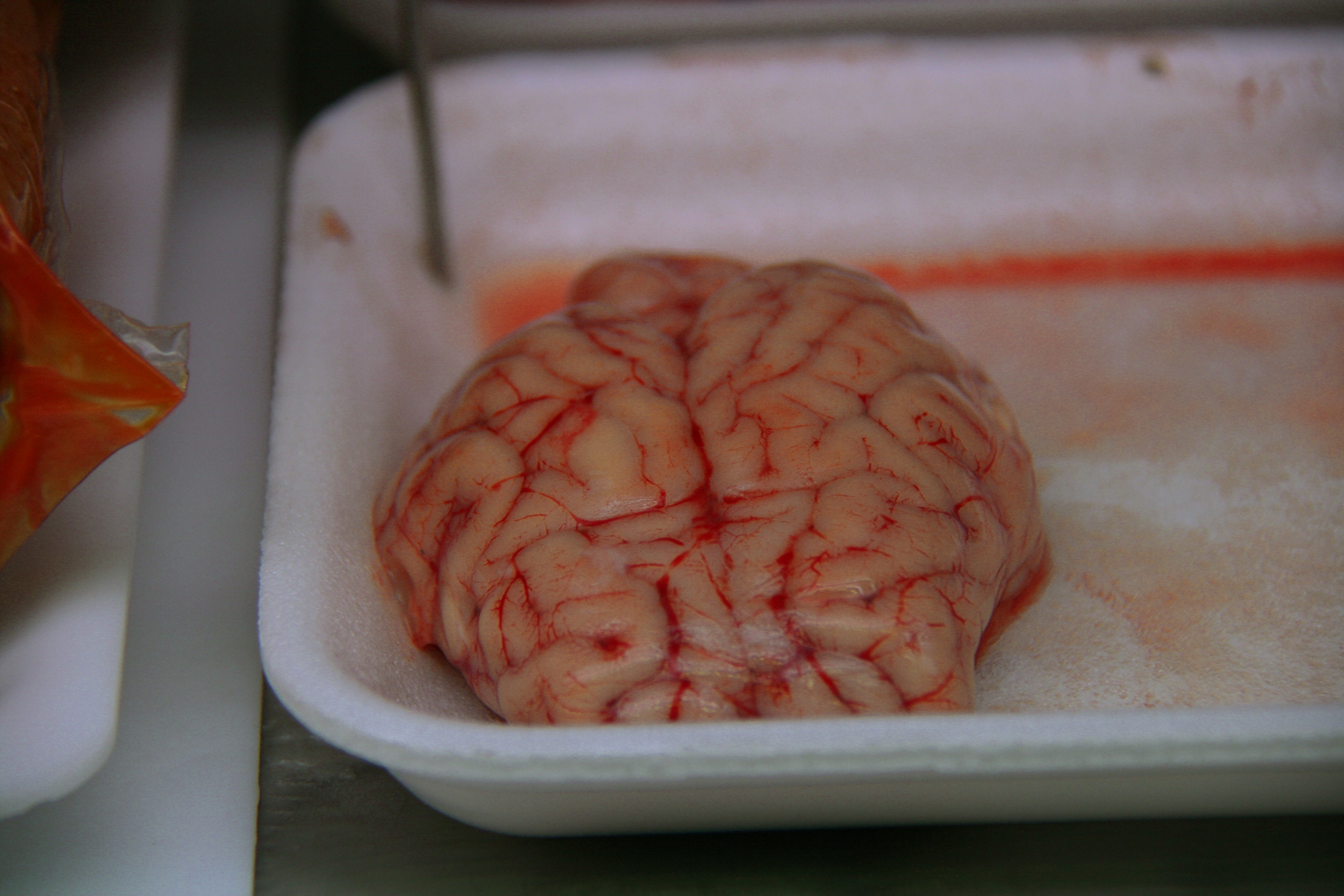 lamb brain